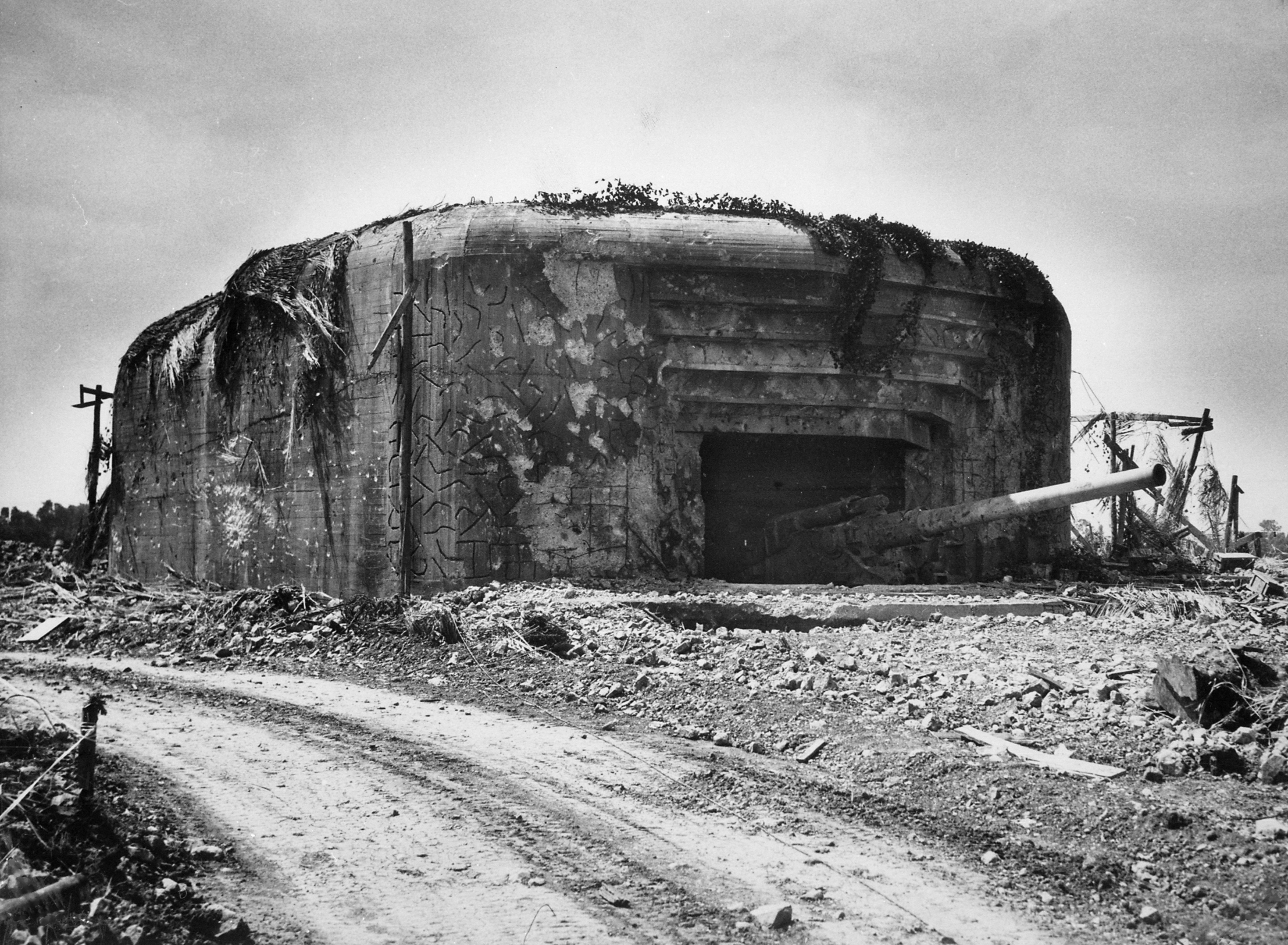 One on the 210mm gun of the German Crisbecq Battery in Normandy, not far away from Utah Beach.